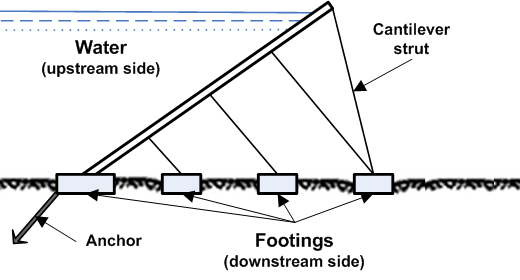 Image drawn with Microsoft Visio 2003 Sp1 (contact uploader for source), and saved as PNG. For use in pending Steel Dam article. Illustrates a "cantilever strutted" Steel Dam in cross section. Image released under GFDL 2006 January 19 by Larry Pieniazek, the uploader.